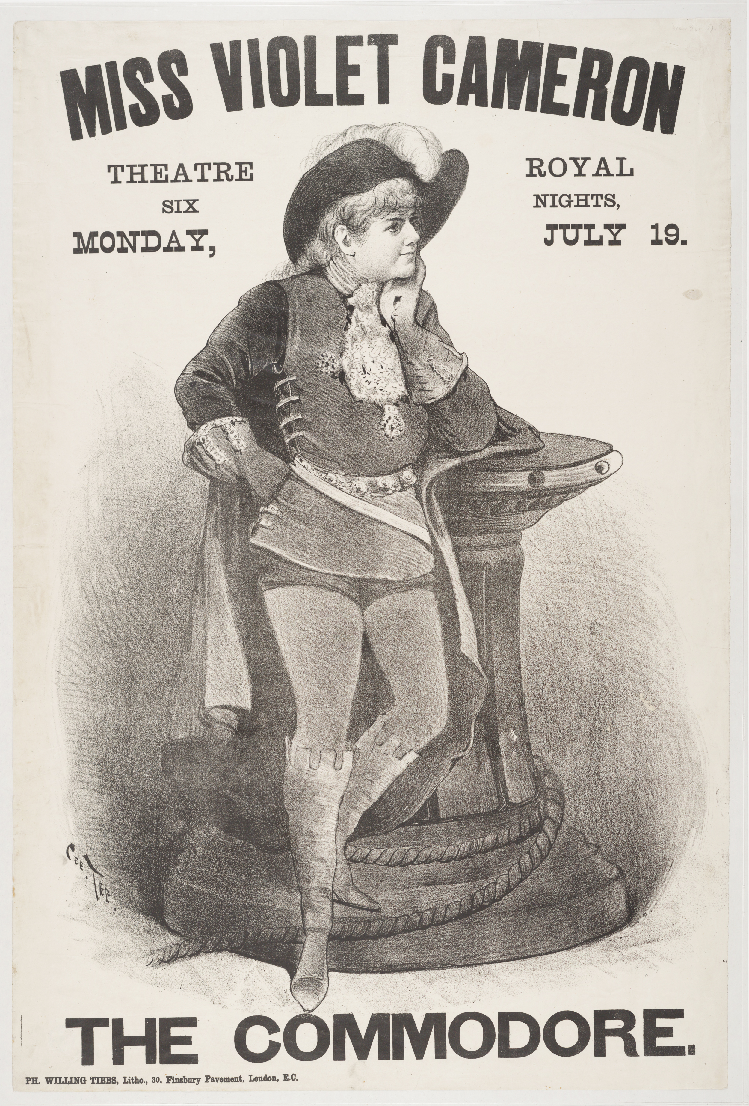 Six nights, Monday, July 19. Miss Violet Cameron in 'The Commodore'. Printed by Ph. Willing Tibbs, Lithographer, 30, Finsbury Pavement, London, E.C.